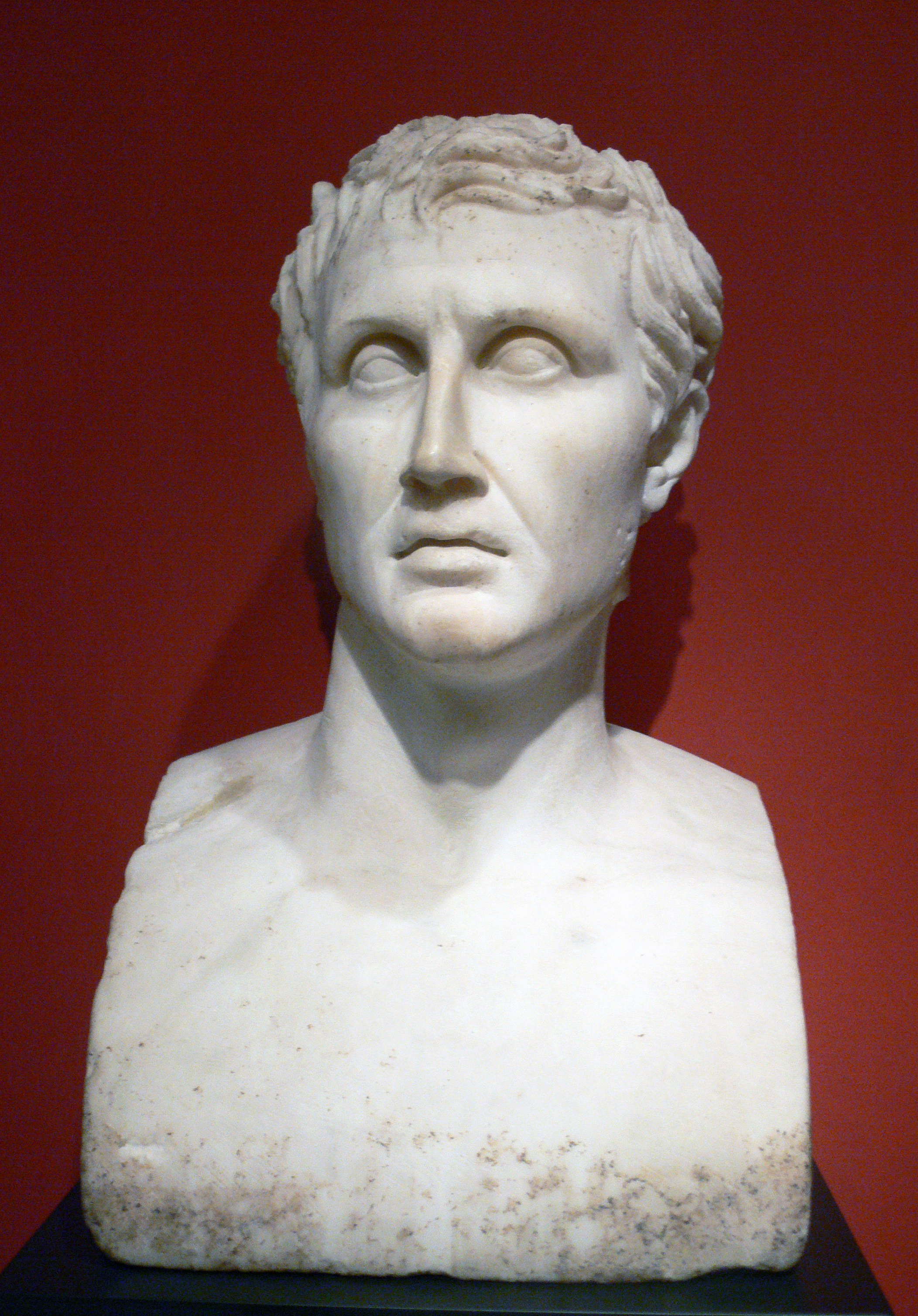 bust of Menander